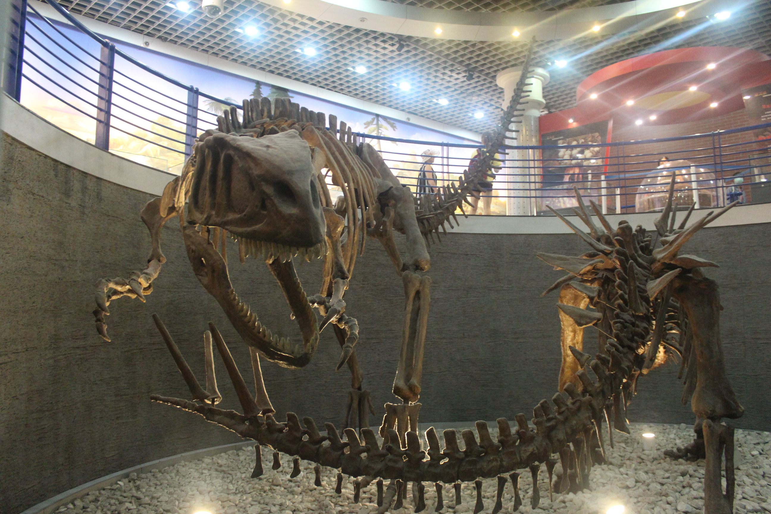 Skeletal cast mounts of Yangchuanosaurus and Tuojiangosaurus on display at the Beijing Museum of Natural History.